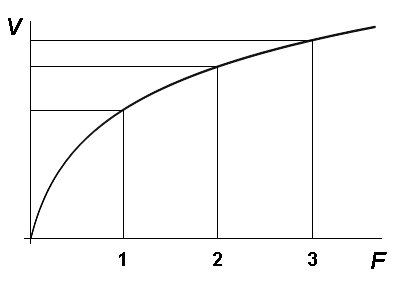 Law of diminishing returns